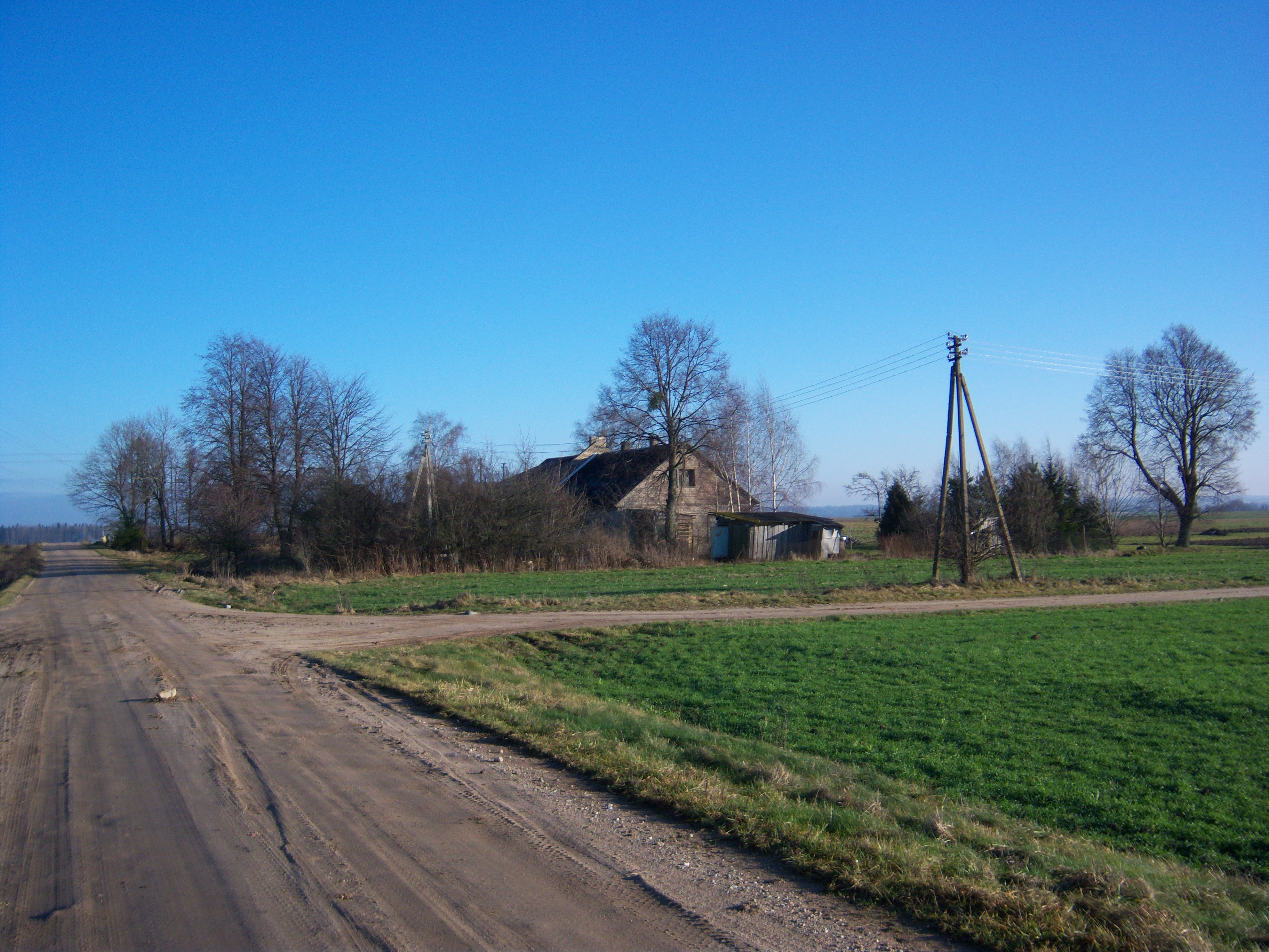 Taurakiemis, Kaunas District. Lithuania